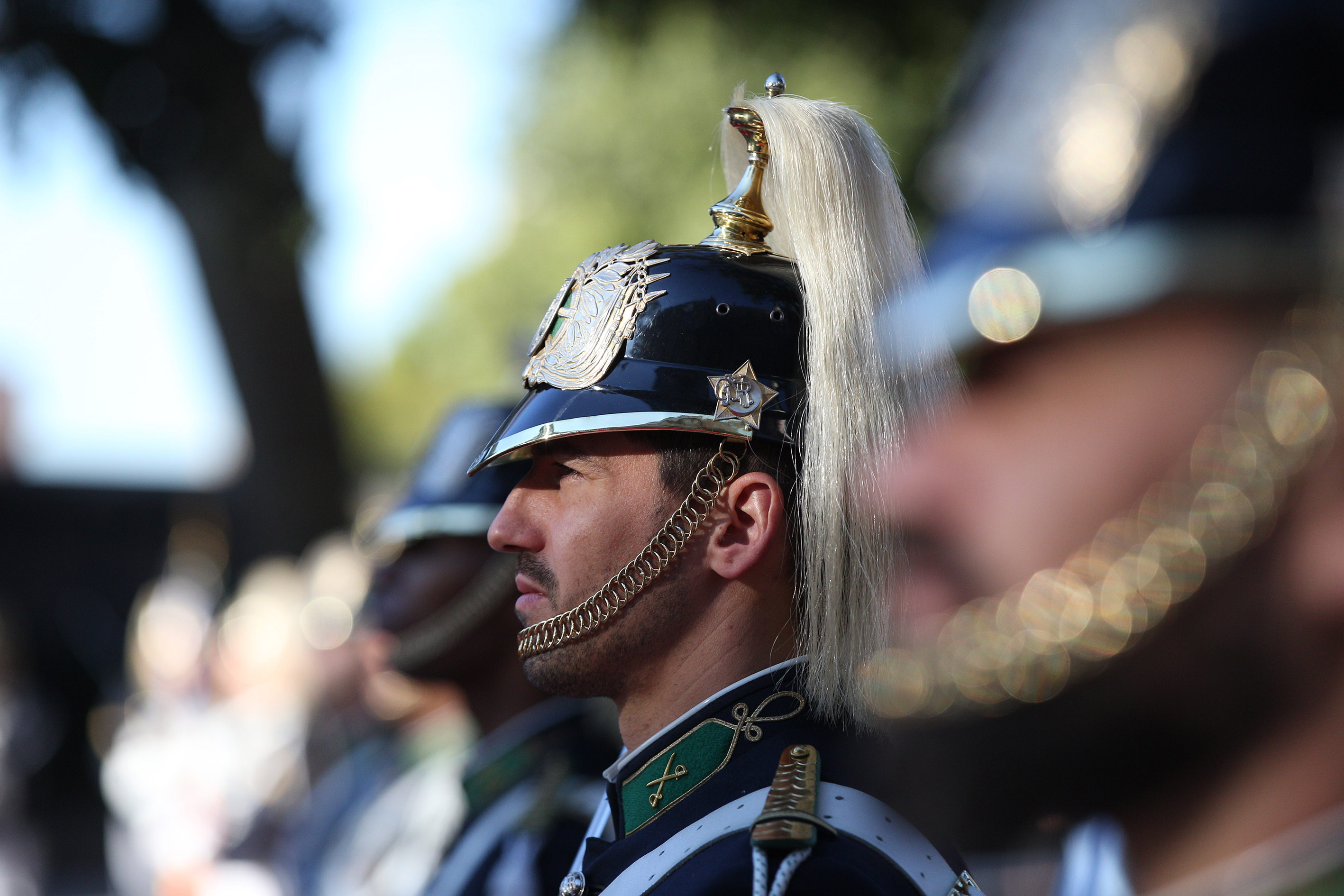 Ukrainian President Petro Poroshenko during his visit to Portugal in 2017.